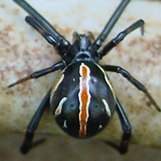 Female of unknown Latrodectus (black widow) species, taken 7 June 2006 in El Cajon, California, USA by D.-R. D. Luria maybe L. variolus? --Sarefo 21:50, 10 August 2006 (UTC) What's That Bug has a picture of a spider just like this one that they say is an immature Black Widow, L. hesperus. Apparently the juveniles are usually brownish with the bright markings, but this site says some Western Black Widows turn black as adults but still keep their juvenile markings. There's another here in black and white. - Indy Gold 21:48, 30 September 2006 (UTC)